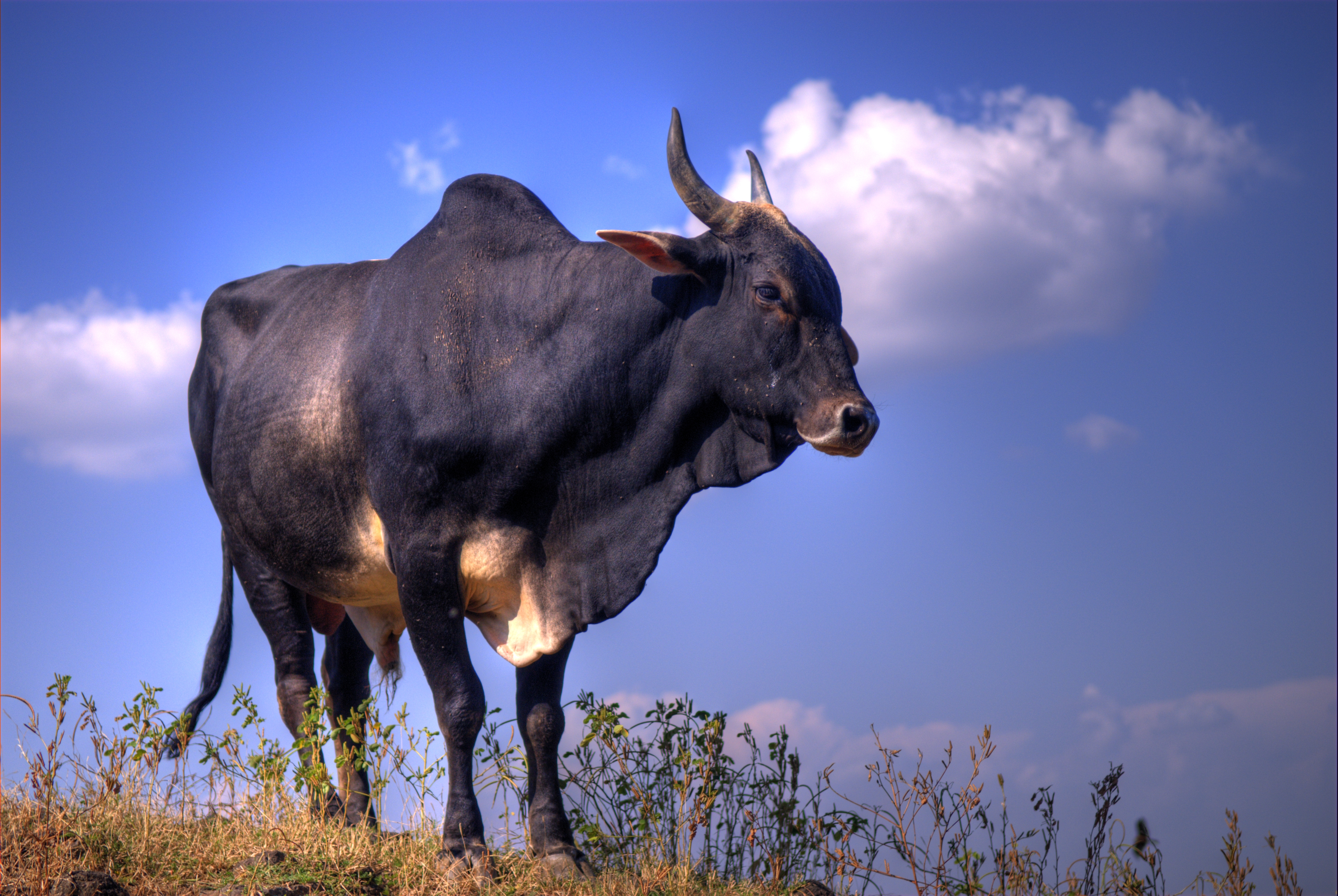 We climbed to one of the hills in Pune to see a temple and bumped into this guy! November 2006.